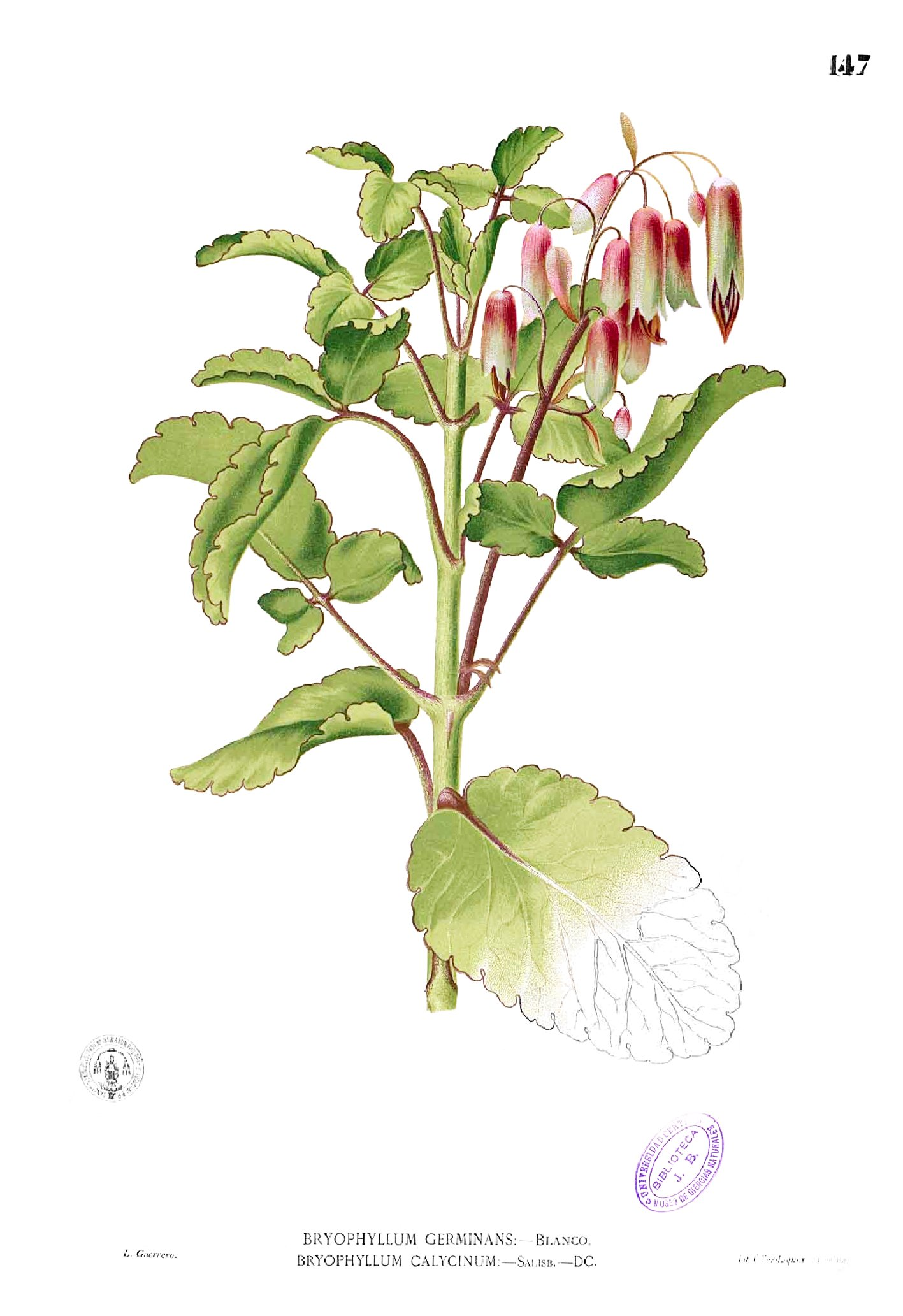 Plate from book Kalanchoe pinnata